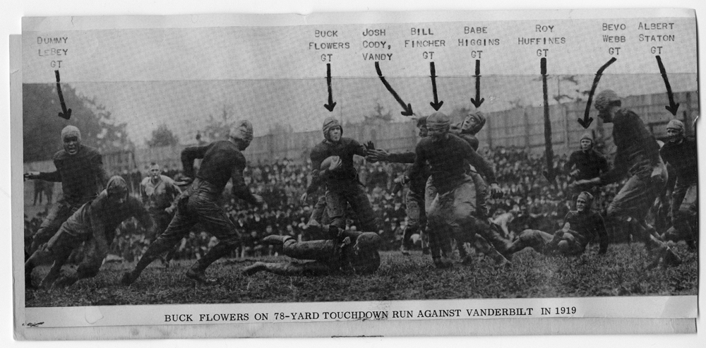 Georgia Tech football player Buck Flowers on a 78-yard touchdown run versus Vanderbilt.